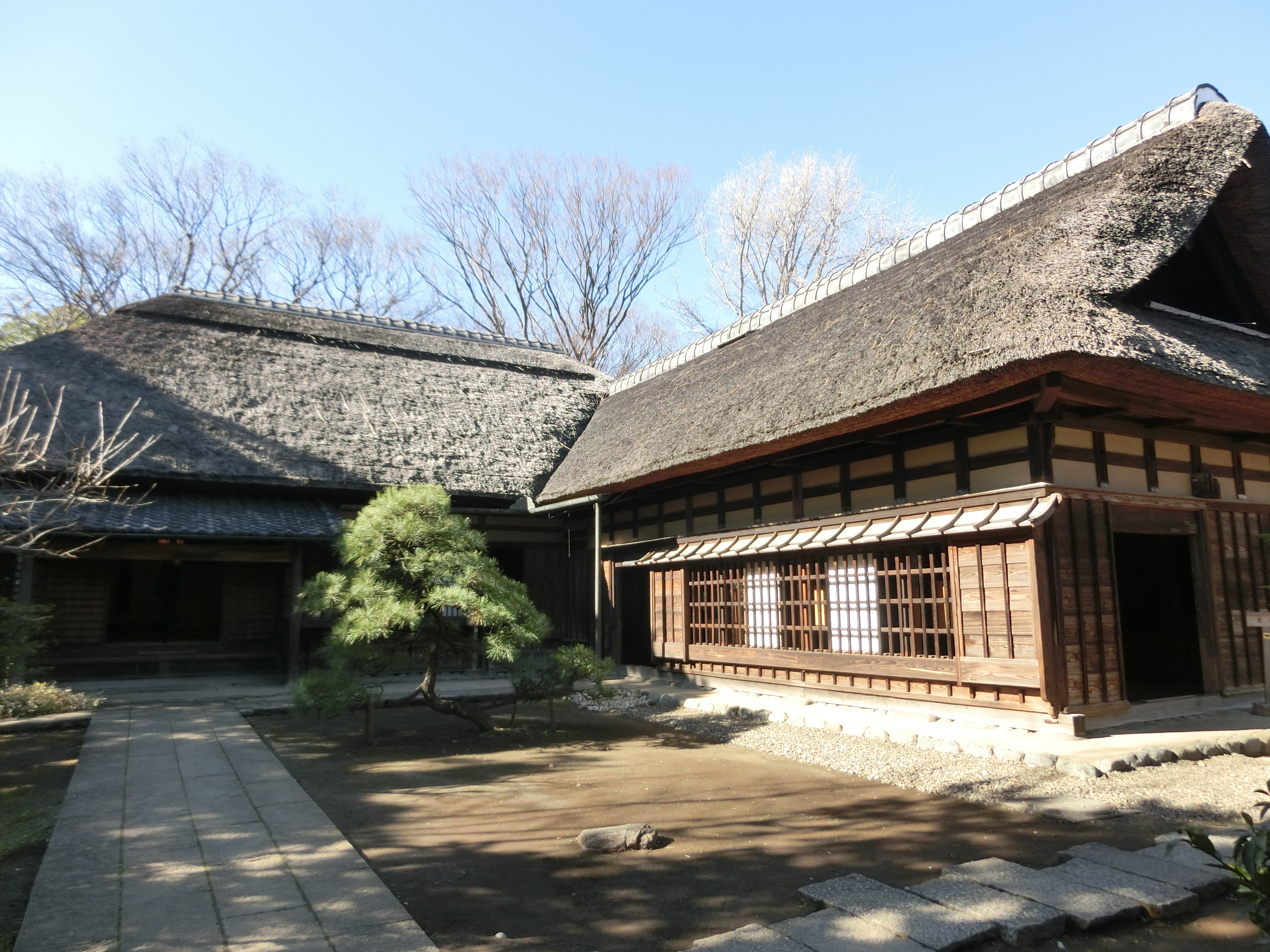 Ichinoe Nanushi Yashiki